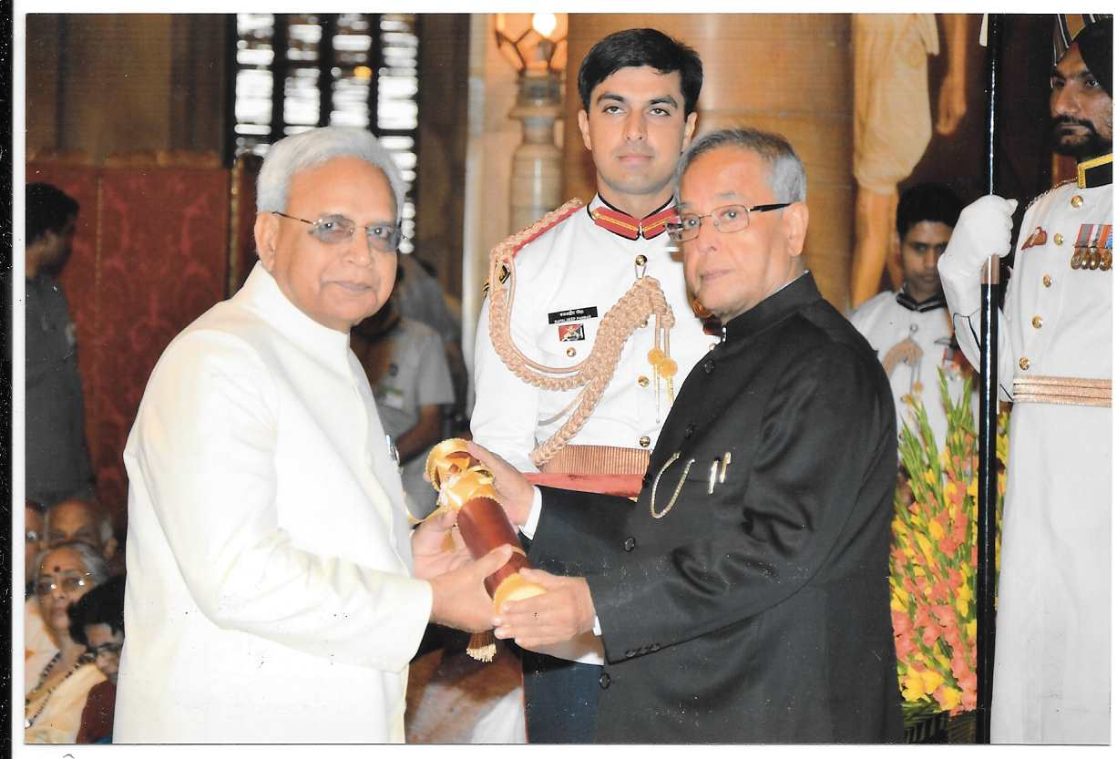 President Pranab Mukherjee presents Padma Shri to Mohammad Sharfe Alam at Padma Awards 2013 at the Rashtrapati Bhavan in New Delhi